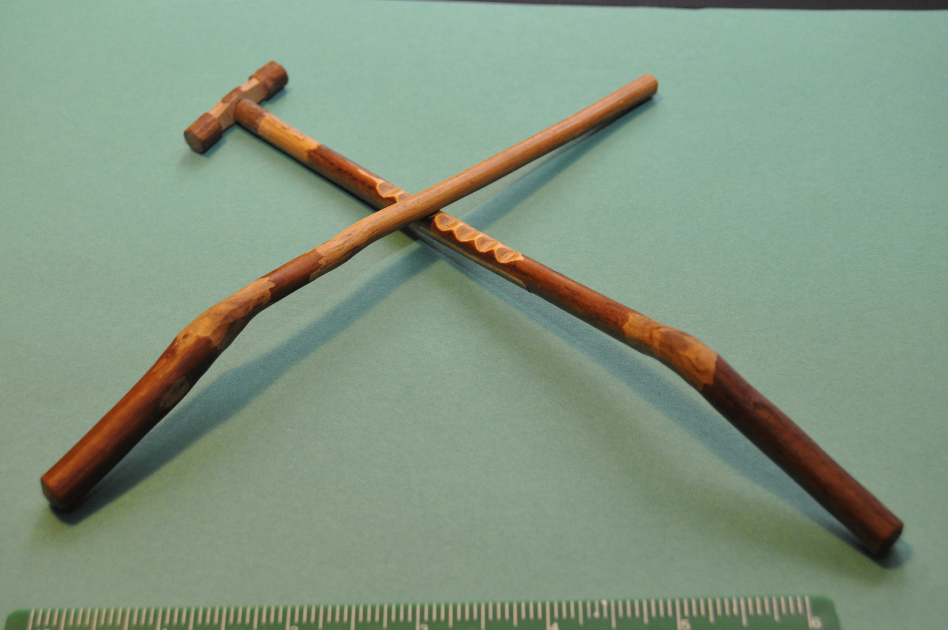 A gee-haw whammy diddle or gee haw whimmy diddle toy with spinning propeller on a notched stick which is made to spin in either direction by stroking the notches with the second stick. The propeller can be made to turn in either direction. The sticks are 8 inches long. This is example was made in Beech Creek, North Carolina, in the 1960s.